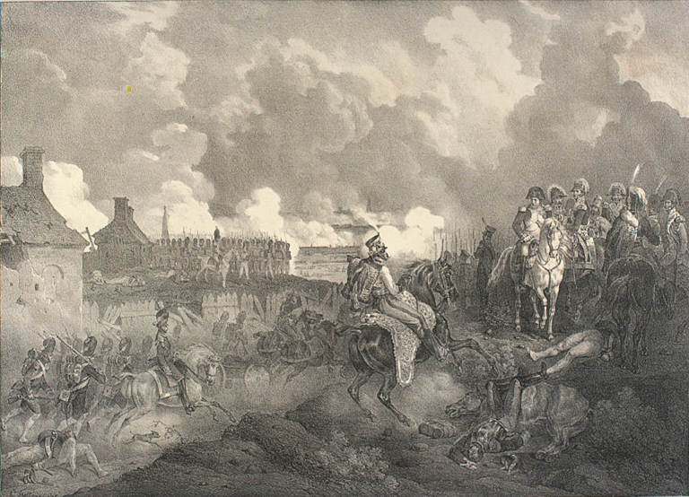 Battle of Bautzen (1813). Napoleon on white horse surrounded by his officers, receives a messenger.